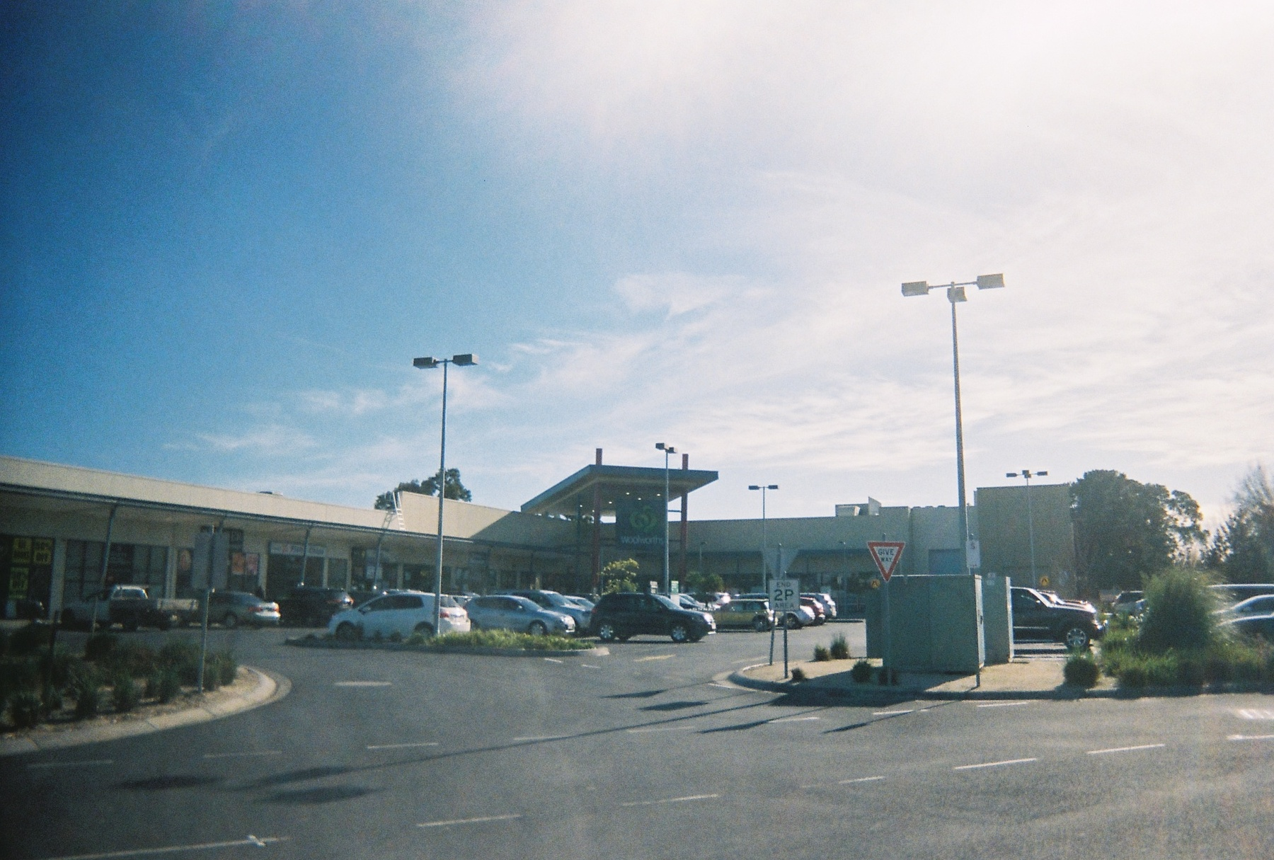 Woolworths in Baxter, Victoria